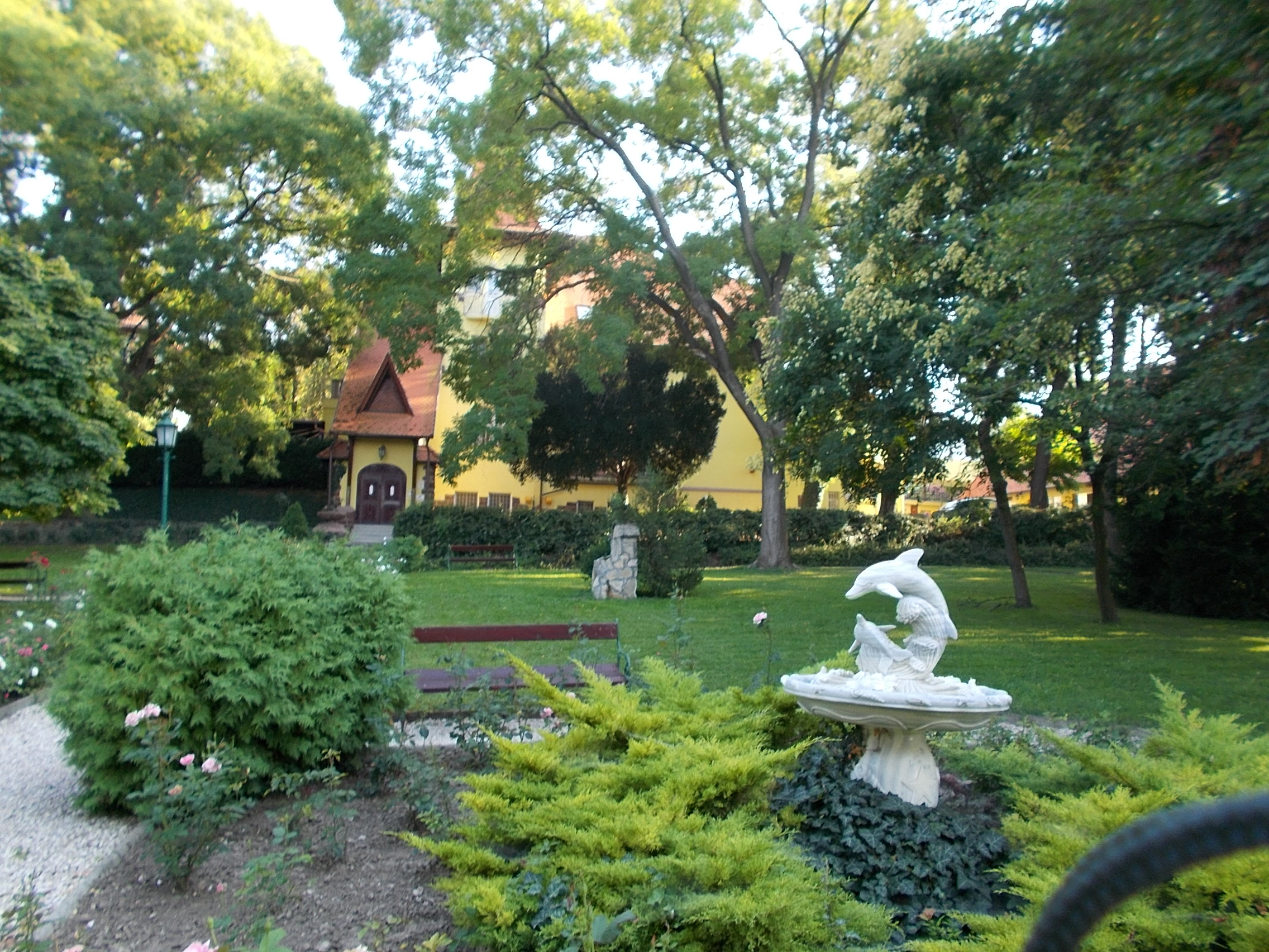 Art Nouveau mansion remodelled to four star hotel. Built in 1926 by Pál Vágó. First owner Imre Fried (local magnat). - Malom Street, Simontornya, Tolna County, Hungary.